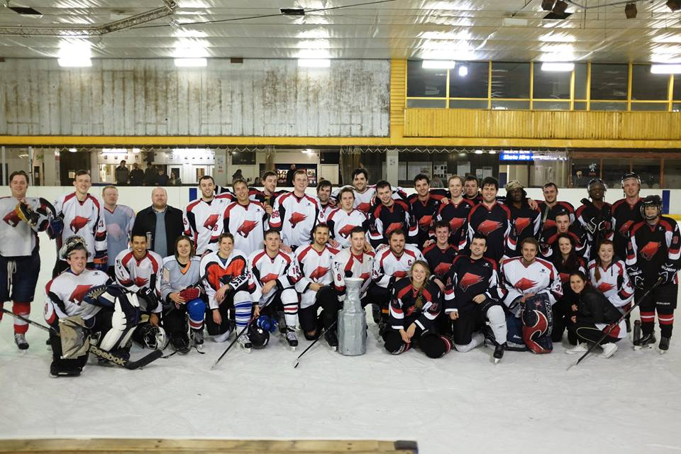 Bradford Sabres Alumni Photo 2014/2015